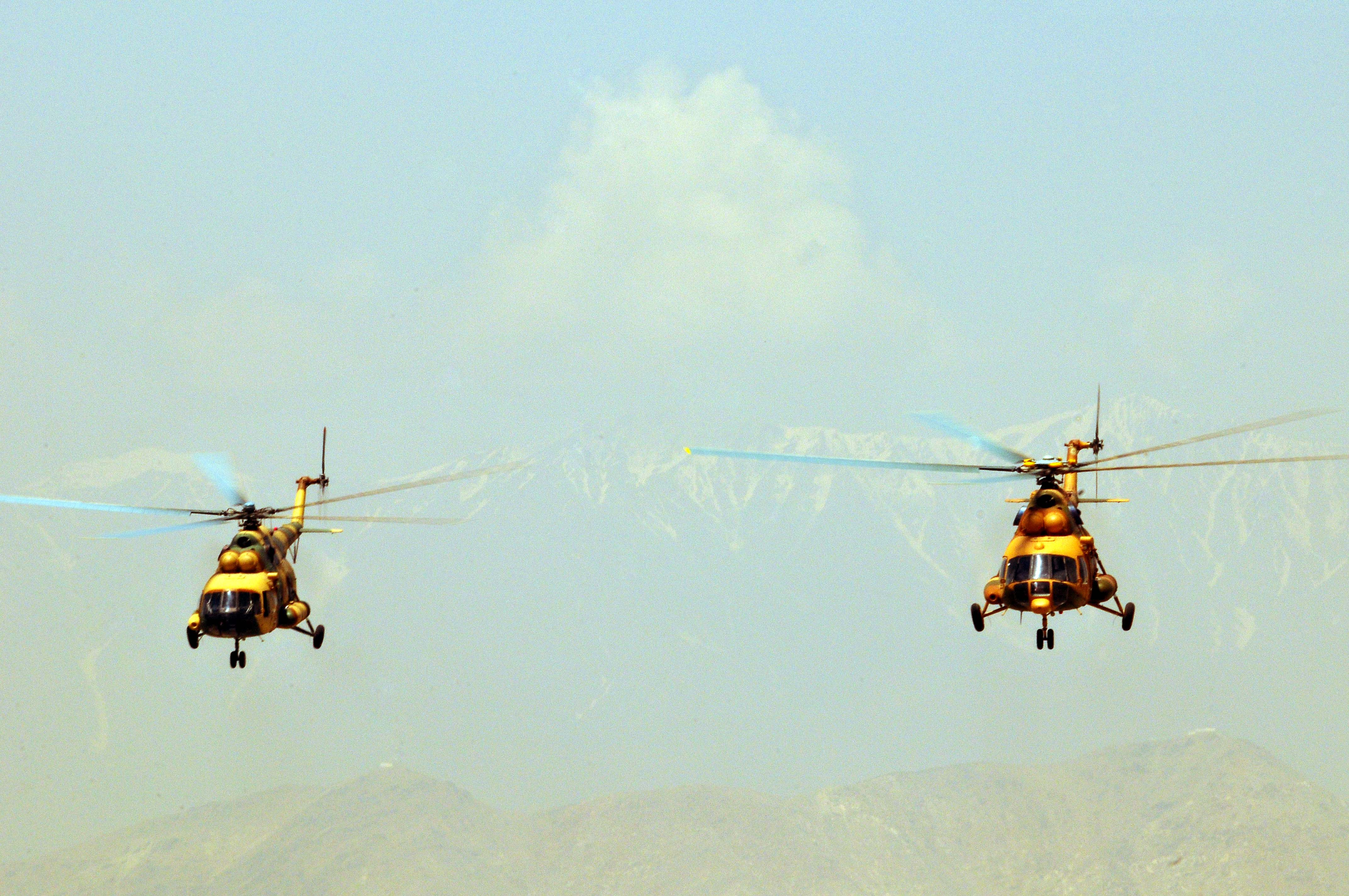 KABUL, Afghanistan -- A collection of Mi-17's and Mi-35 helicopters and C-27 and AN-32 Fixed Wing Craft take part in an air show in celebration of Victory Day on April 28, 2010 in Kabul, Afghanistan. (US Navy photo by Mass Communication Specialist 2nd Class David Quillen/ RELEASED).